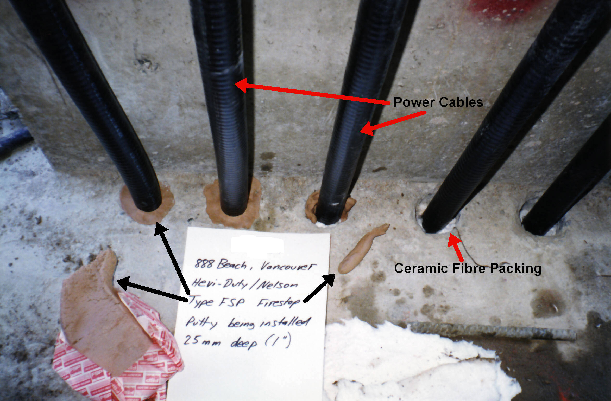 Intumescent firestop putty being used over top of ceramic fibre packing to restore the two-hour fire-resistance rating of a concrete floor slab, with cable penetrants in a building in Vancouver, British Columbia, Canada